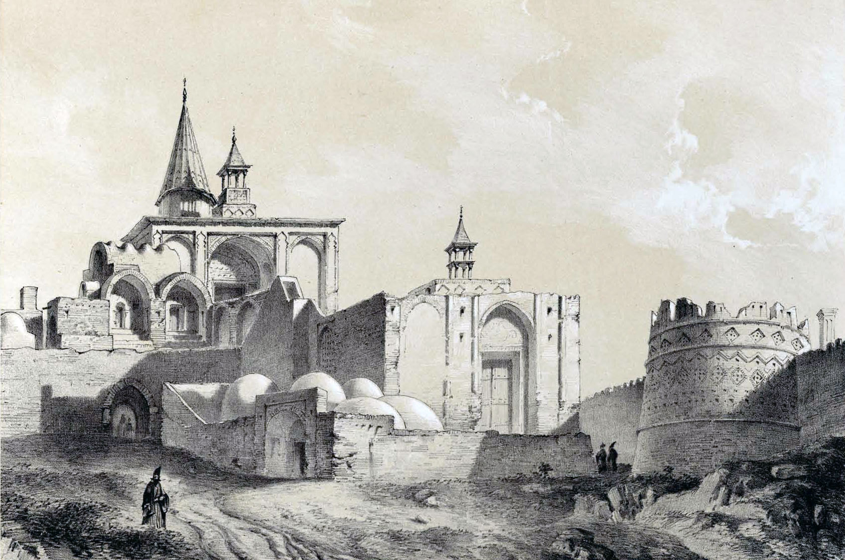 Imam Zadeh (tomb) in Kashan